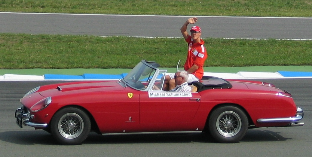 Michael Schumacher on the Hockenheimring 2004 in a Ferrari 250 GT Cabriolet